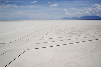 Runways, White Sands Space Harbor